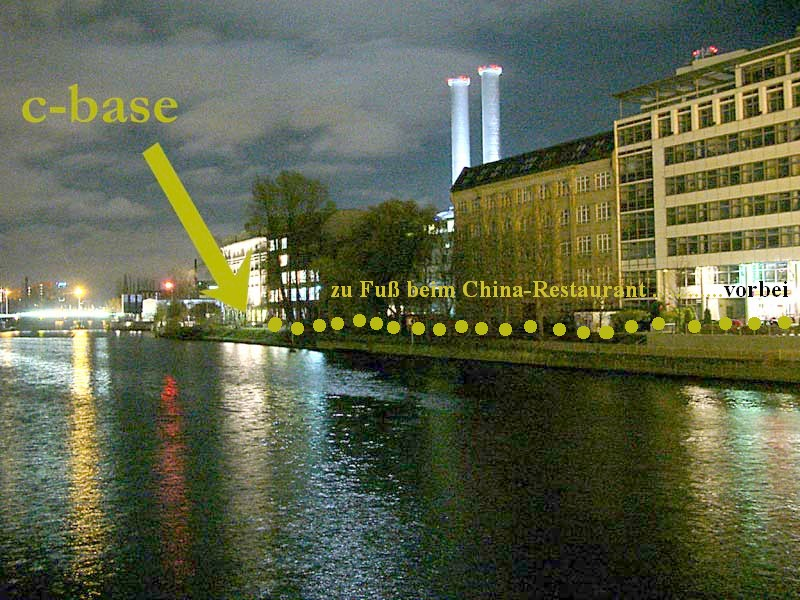 The "C-Base", view from Jannowitzbrücke